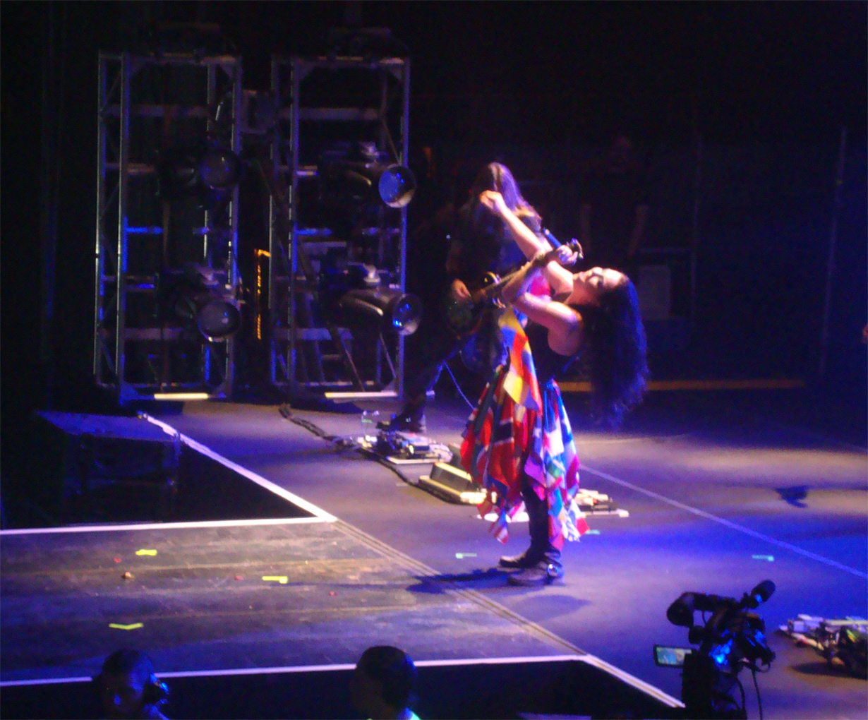 Amy Lee performing on October 30, 2012 during Evanescence's latest tour in promotion for their third self-titled release record.